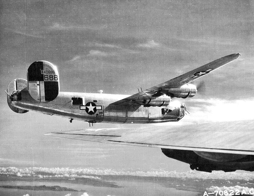 Consolidated B-24J-175-CO Liberator 44-40686 494BG 867BS